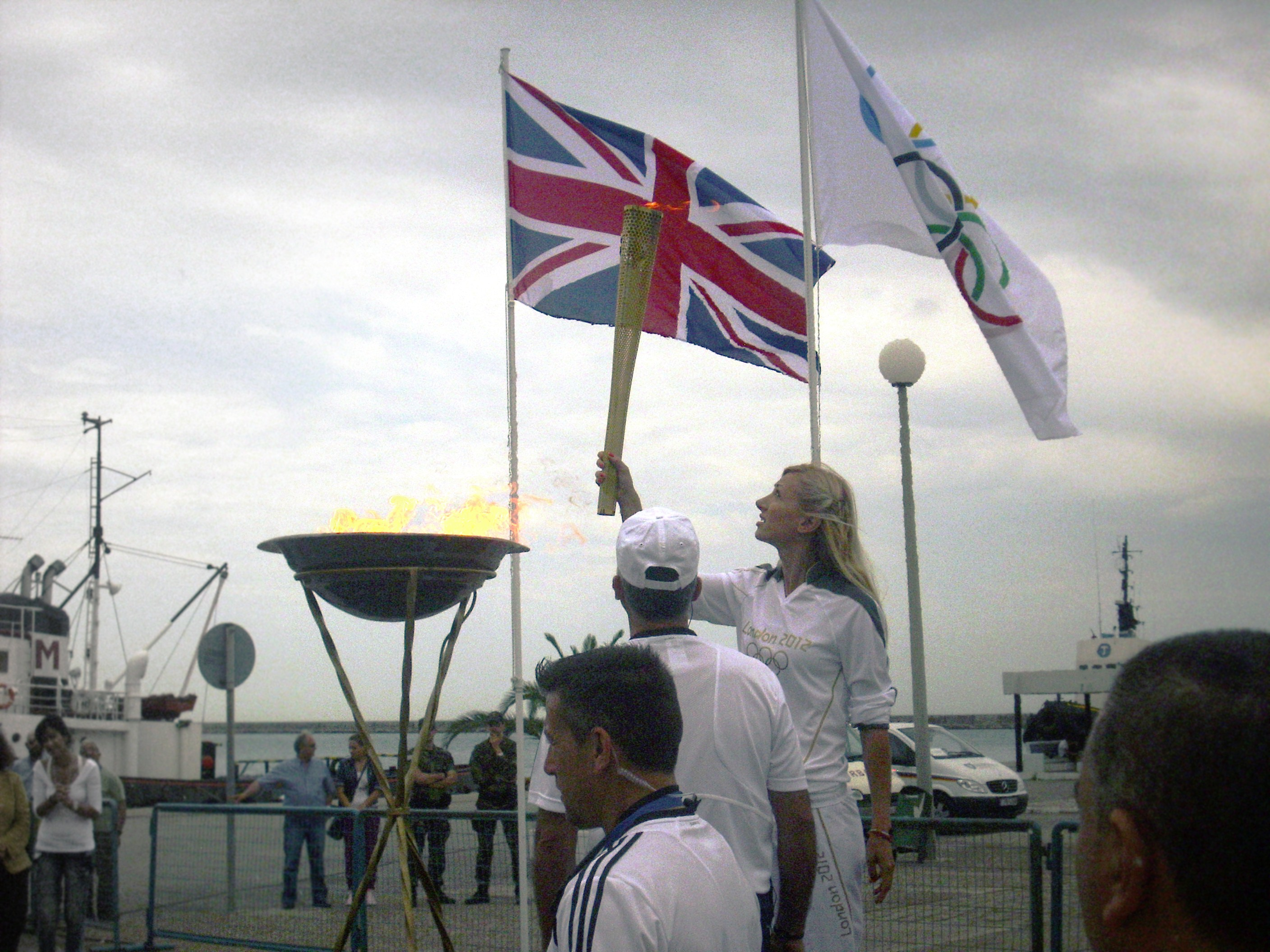 Day 3 of the Greek portion of the 2012 Summer Olympics torch relay, with the torch and torch bearer seen here at a lighting ceremony in Patras.